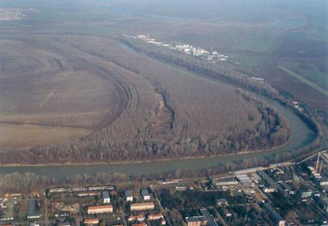 Tisza Bend, Martfű, Hungary, aerialphotography